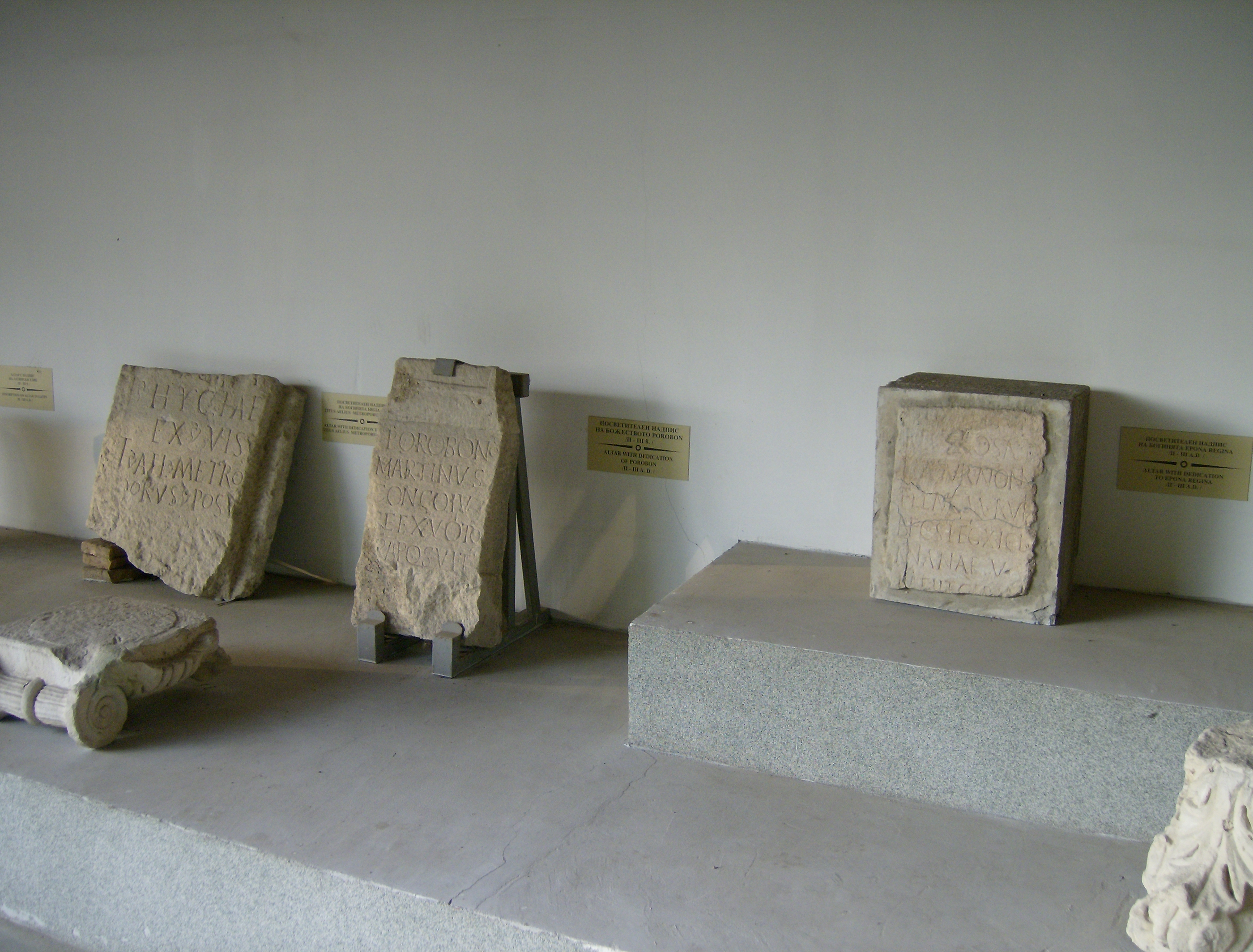 Abrittus